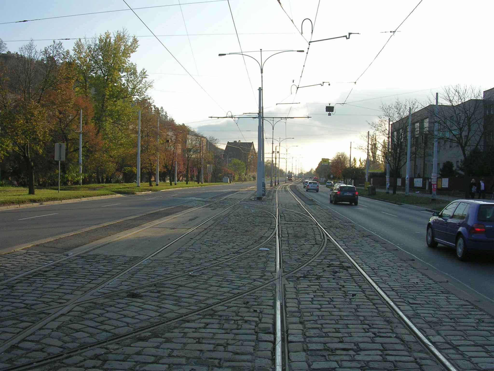 Podolí, Prague. Tram track loop Dvorce.